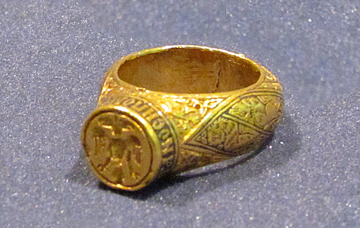 Queen Theodora's ring, Banjska monastery, before 1322, National Museum of Serbia